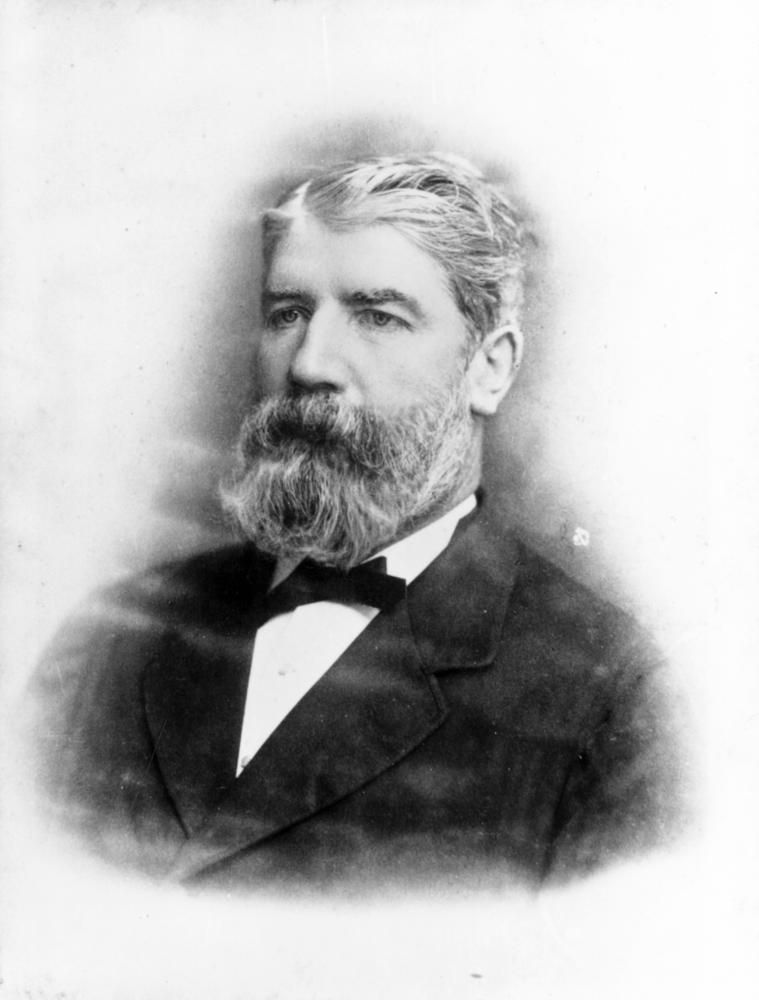 Brewer and politician Patrick Perkins, 1879 Patrick Perkins was born on 10 October 1838 at Cashel, County Tipperary, Ireland, second son of Thomas Perkins, farmer, and his wife Ellen, née Gooley. Educated at the local National school, he migrated to Victoria in 1855 with his family. Successful on the Ballarat and Bendigo goldfields, he and his brother Thomas (1841-1876) as partners acquired a share in the Reedy Creek mine for £8000 and later opened a store and brewing business at Castlemaine. In 1866 Perkins visited Queensland and opened the Toowoomba Brewery in 1869. Its operations were extended to Brisbane, where 'Castlemaine XXXX' ale soon won repute and a large following. In 1876 he settled in Brisbane and became involved in real estate, mining, brewing and hotel speculations. In 1888 with McIlwraith and Morehead he floated Perkins & Co., a large brewing and hotel business. Unlike others Perkins was astute and ruthless, and disposed of most of his shares before the firm struck financial difficulties. Retribution followed when he joined his political associates in speculating heavily in Mount Morgan shares (9104 in 1892) and hotel properties. By then his overdraft at the Queensland National Bank (£99,485) was one of the largest in the colony and the securities lodged were then worth scarcely half this debt. By 1898 he was even unable to pay an £8000 call on his 20 per cent share in R. M. Collins's and Thomas McIlwraith's North Australian Pastoral Co. In his last years he was almost impoverished. Perkins had entered the Legislative Assembly on 1 May 1877 as member for Aubigny, a Darling Downs constituency. Unseated for election irregularities in 1884, he surprisingly won Cambooya in the Nationalist sweep of 1888. He wisely refrained from contesting that electorate in 1893 and was appointed on 23 May to the Legislative Council where he retained his seat until 1901.